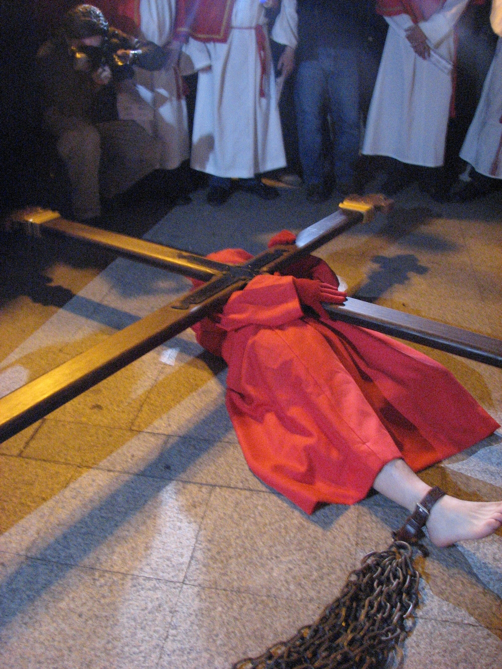 View from Catenacciu in Sartè (Corsica)